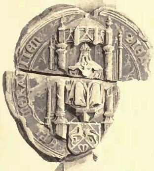 Seal of James Hepburn, Bishop of Moray